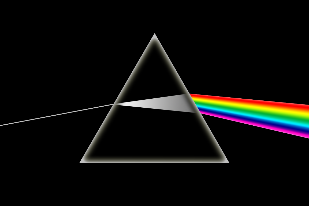 Optical dispersion effect observed when light passes through a prism